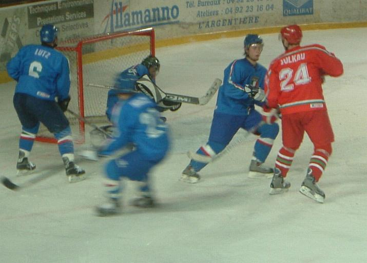 Artem Volkov, belarus ice hockey player